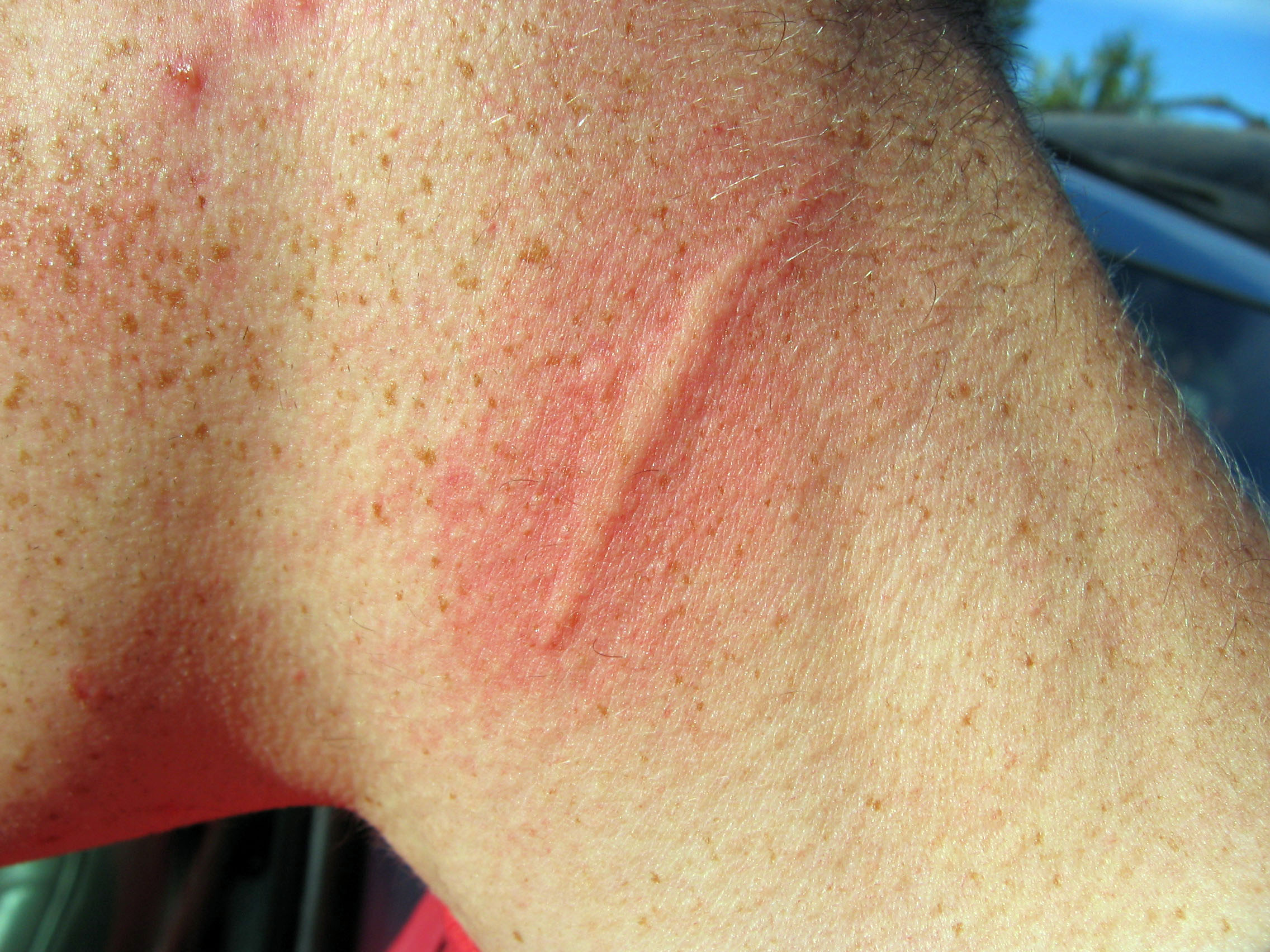 A welt on the neck.